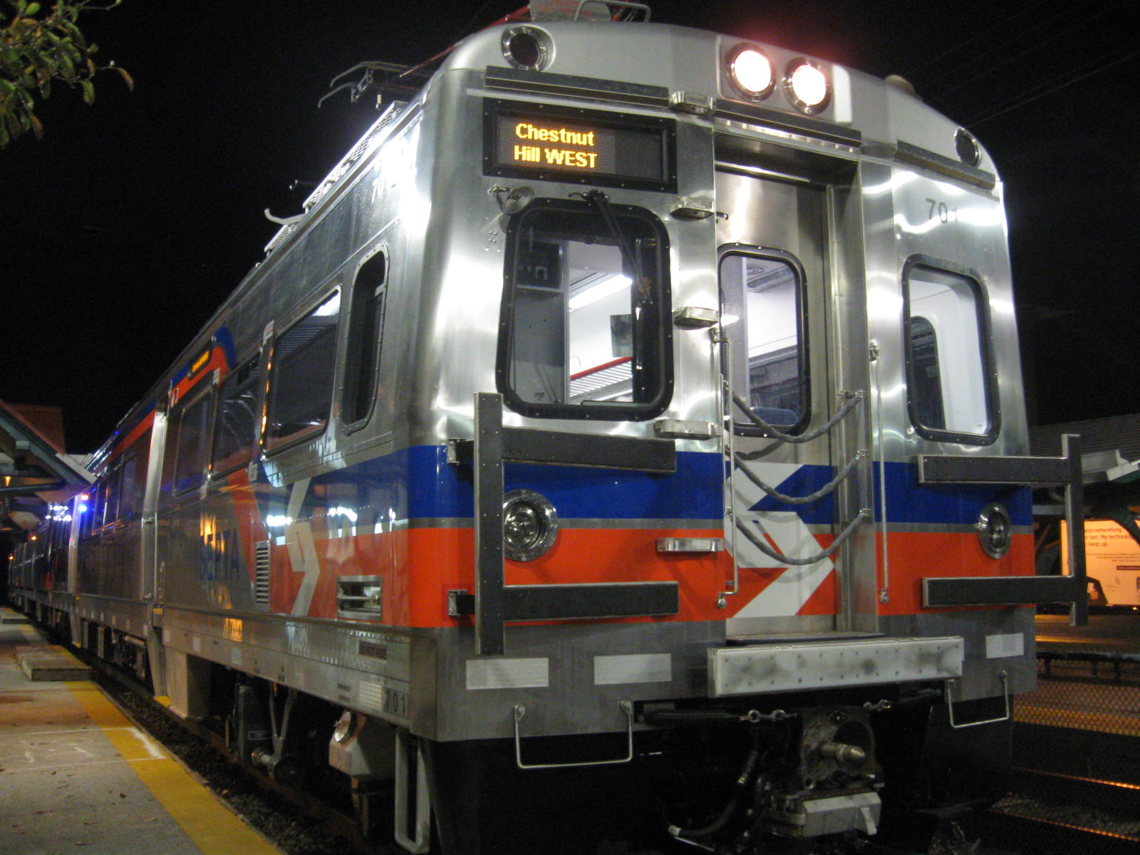 SEPTA's Silverliner V on the Chestnut Hill West Line at St. Martins station.